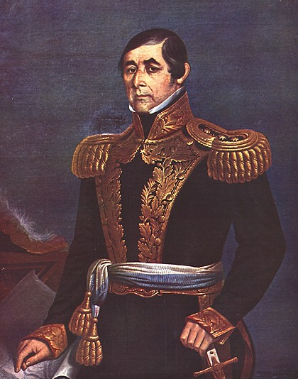 General Fructuoso Rivera, President of Uruguay